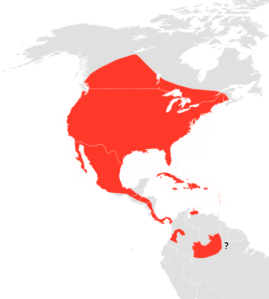 Distribution of Eptesicus fuscus